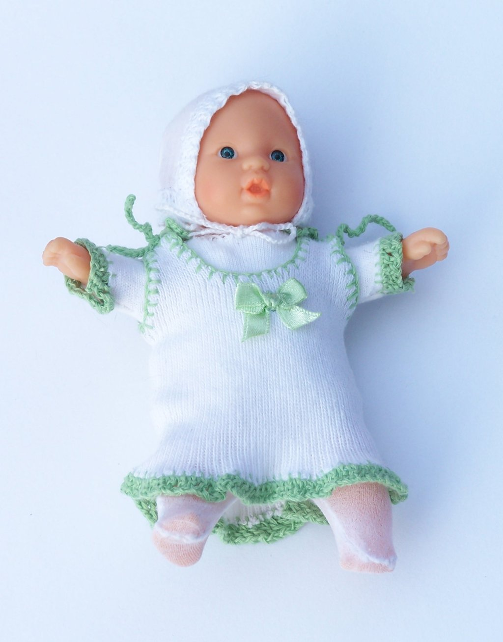 A small (14cm) baby doll from SimbaToys, dressed in self-made clothes.